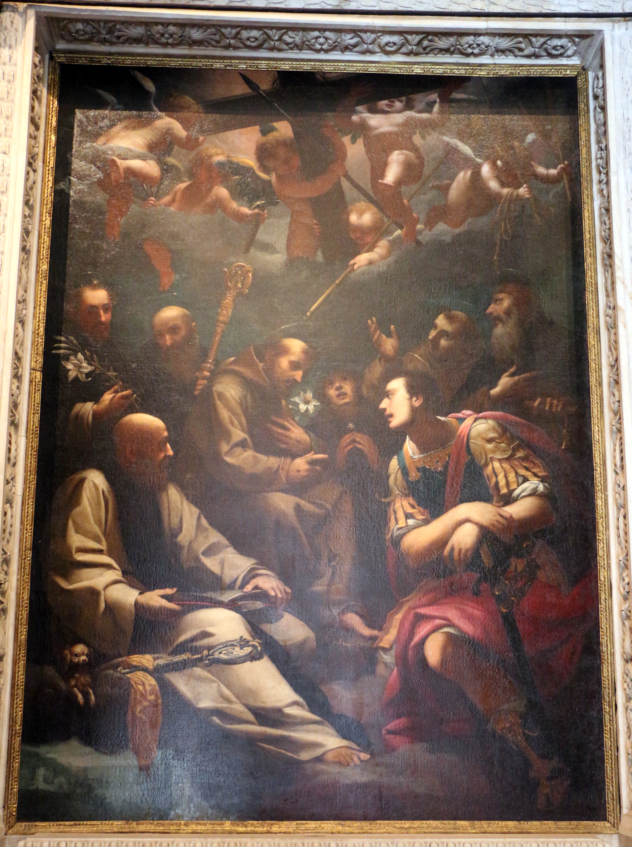 Interior of the Cathedral (Pisa)